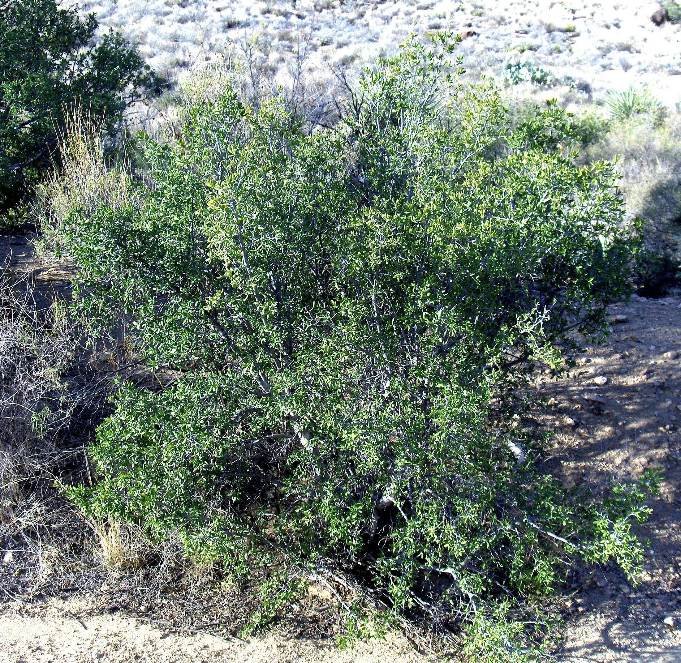 Texas-Persimmon-d